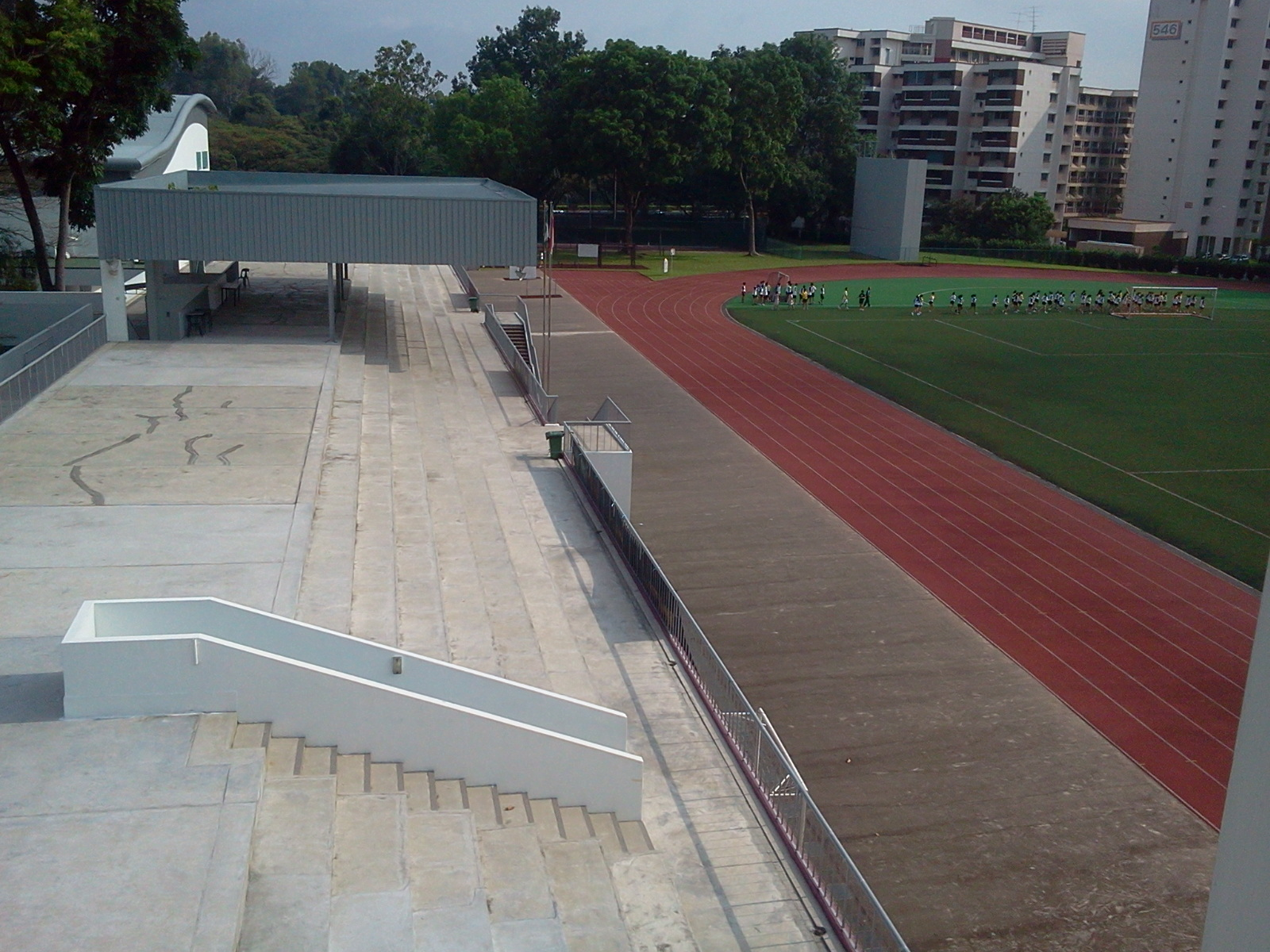 The stadium (with a seating capacity of 1,500) and sports field of Jurong Junior College, Singapore. The exterior of Lecture Theatre 5 can be seen in the background on the left.